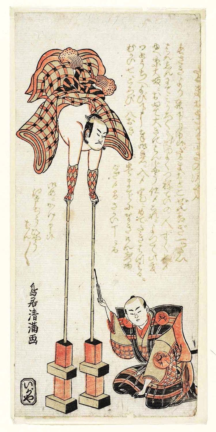 Karuwaza-shi daruma-otoko(Acrobat) by Torii Kiyomitsu, 18th century